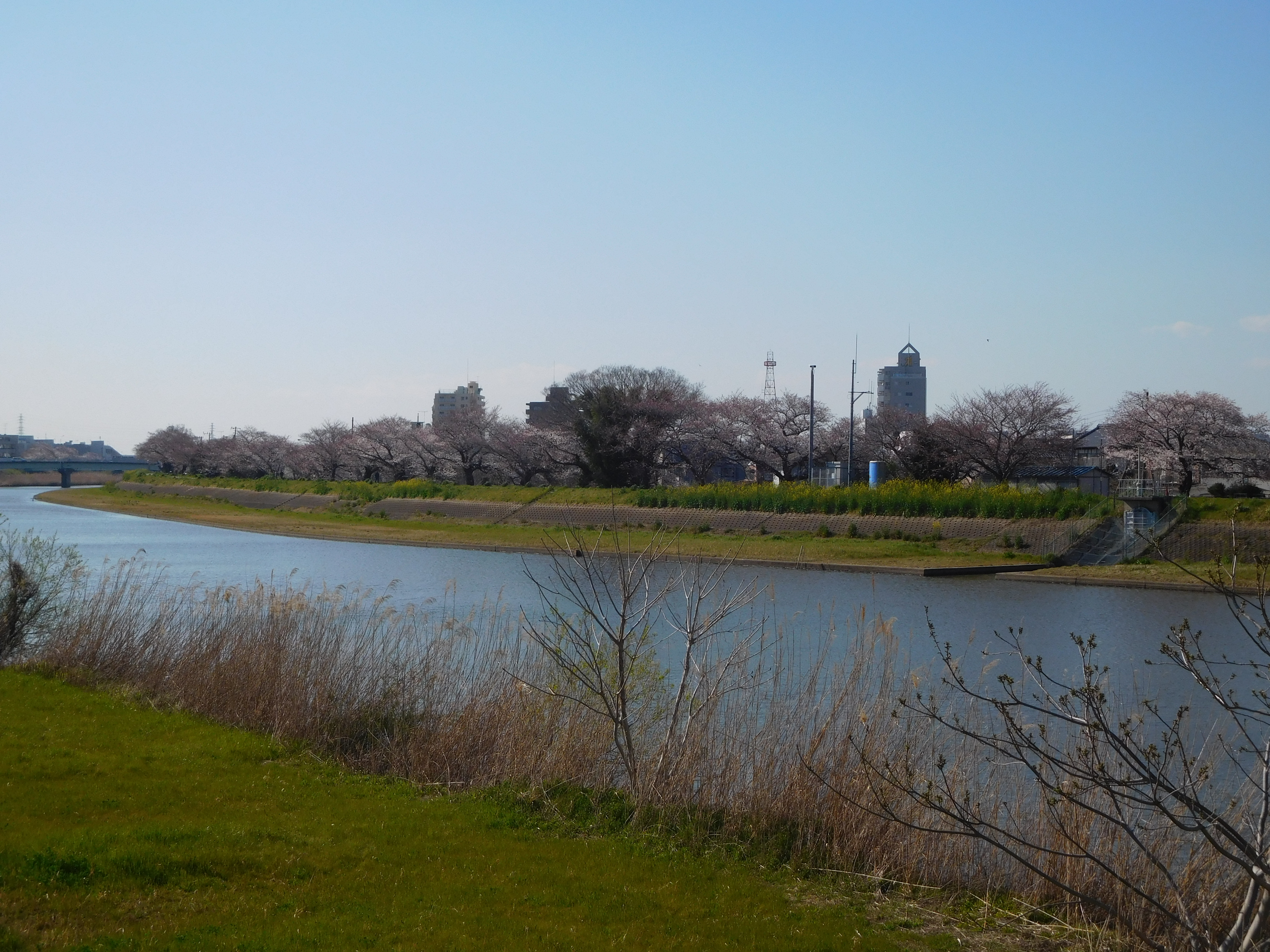 Cherry Blossoms of River Sakura Bank in Tsuchiura, Ibaraki, Japan.